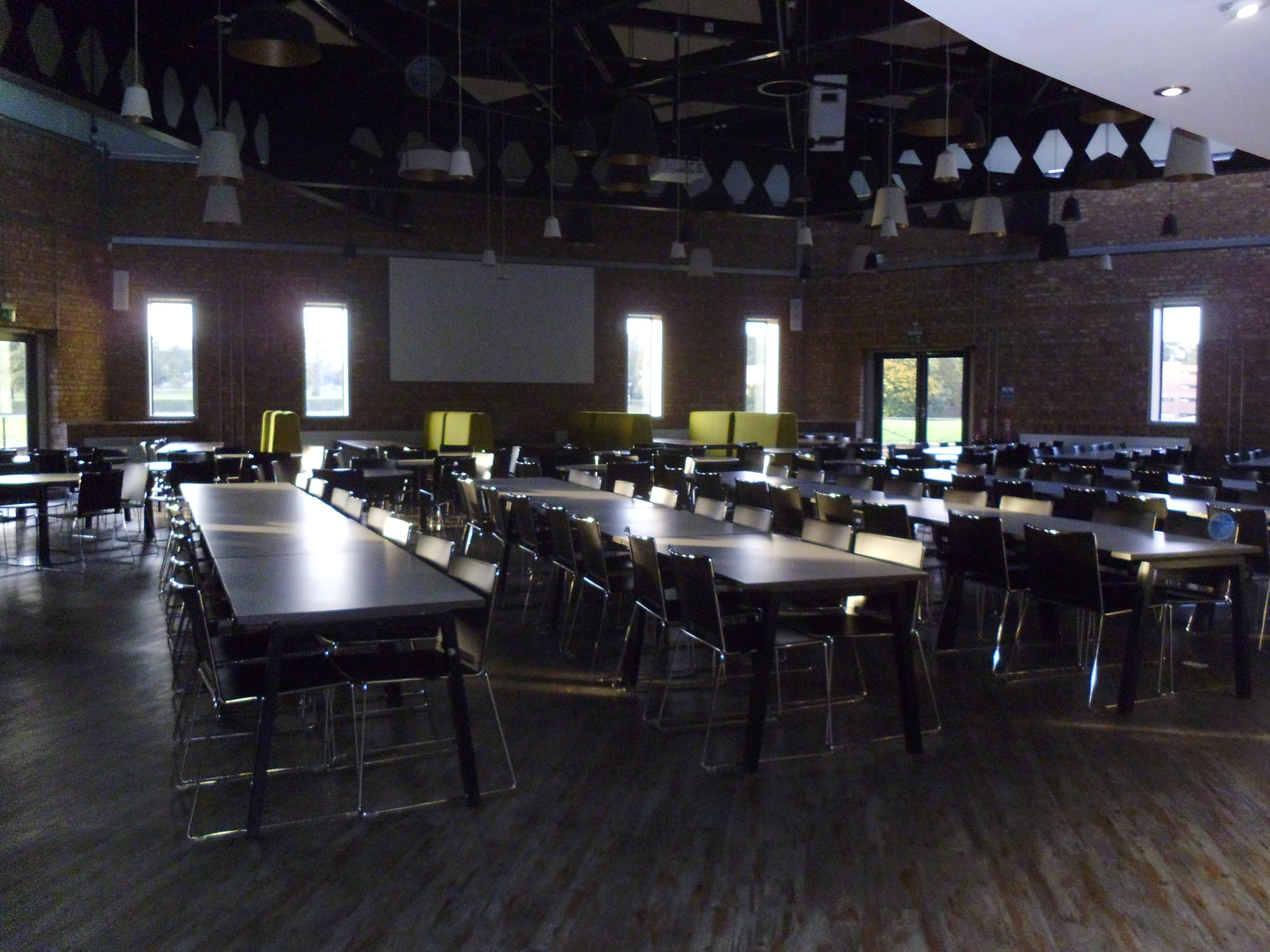 Dining hall at the Lawns Centre, photographed from the exit door.